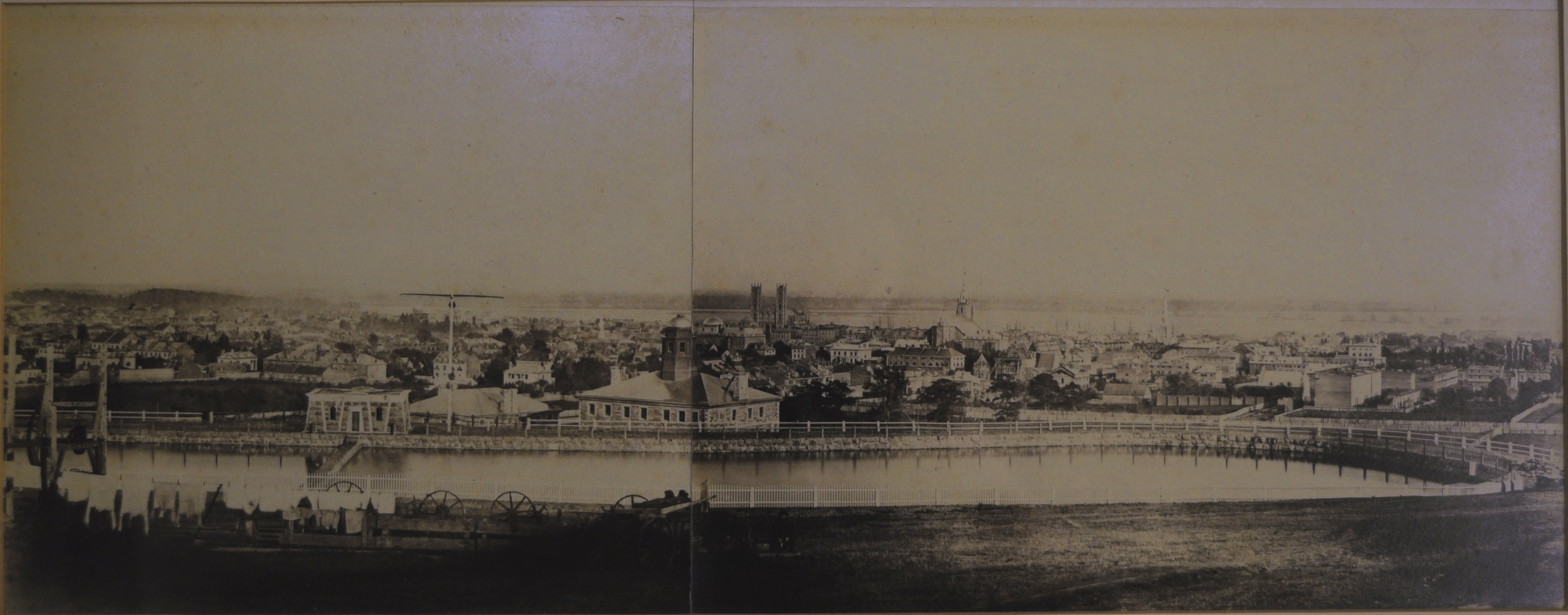 Earliest photograph of Montreal, 1858.